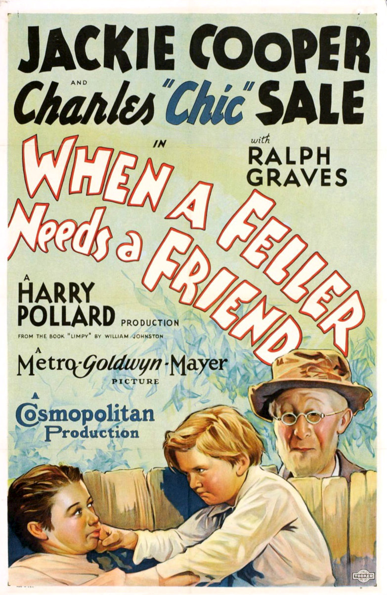 Poster from the 1932 film When a Fellow Needs A Friend.